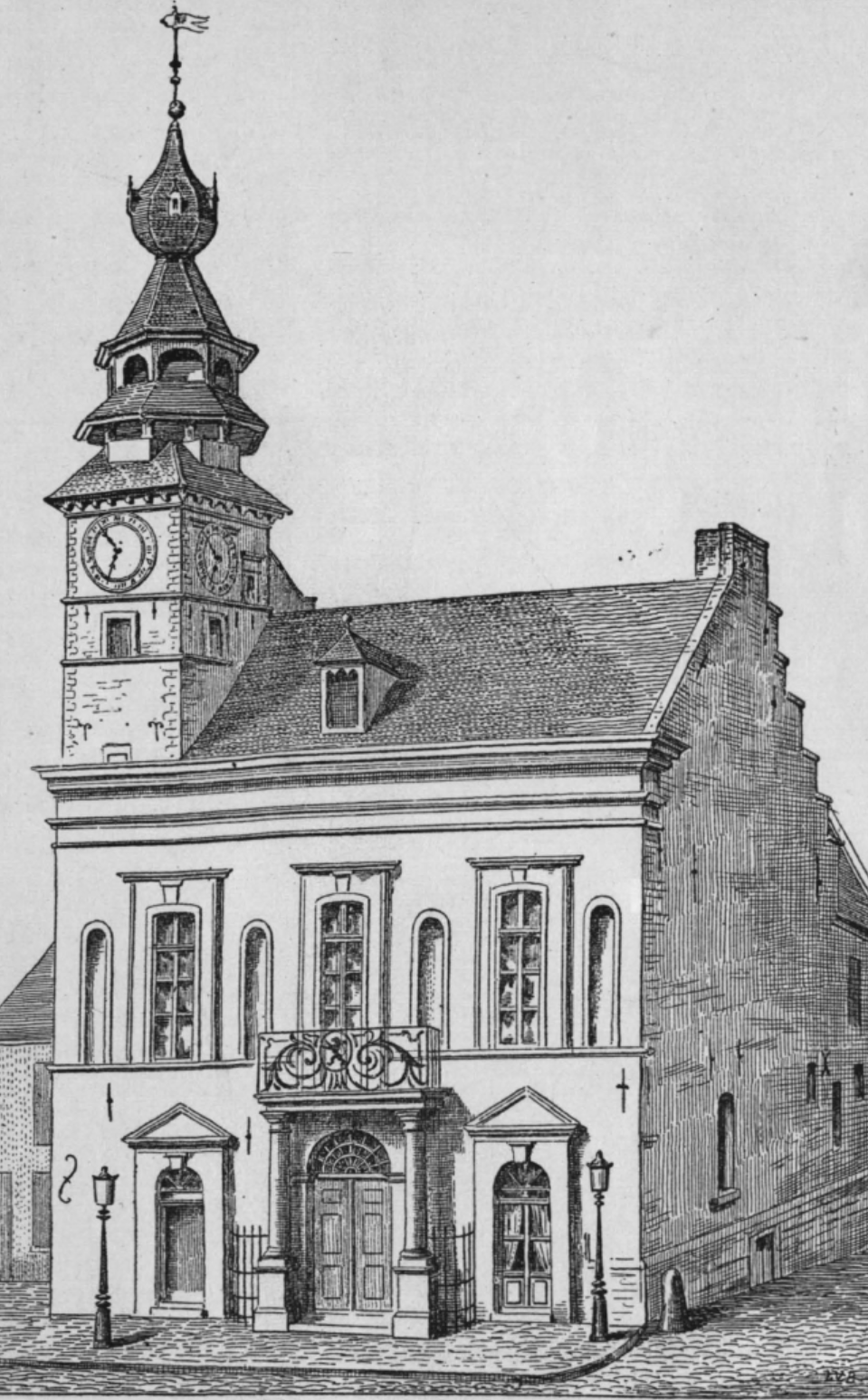 Town hall of Binche in the 19th century.